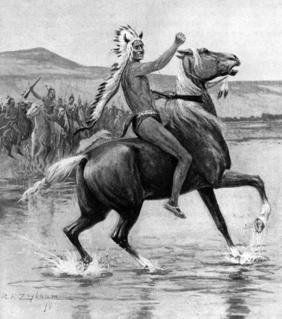 Roman Nose, a Native American (Cheyenne) man, on horseback at the Battle of Beecher Island. A group of spectators on horseback cheer him on.